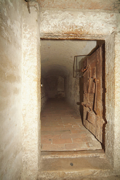 Este Castle of Ferrara, the prison of Parisina